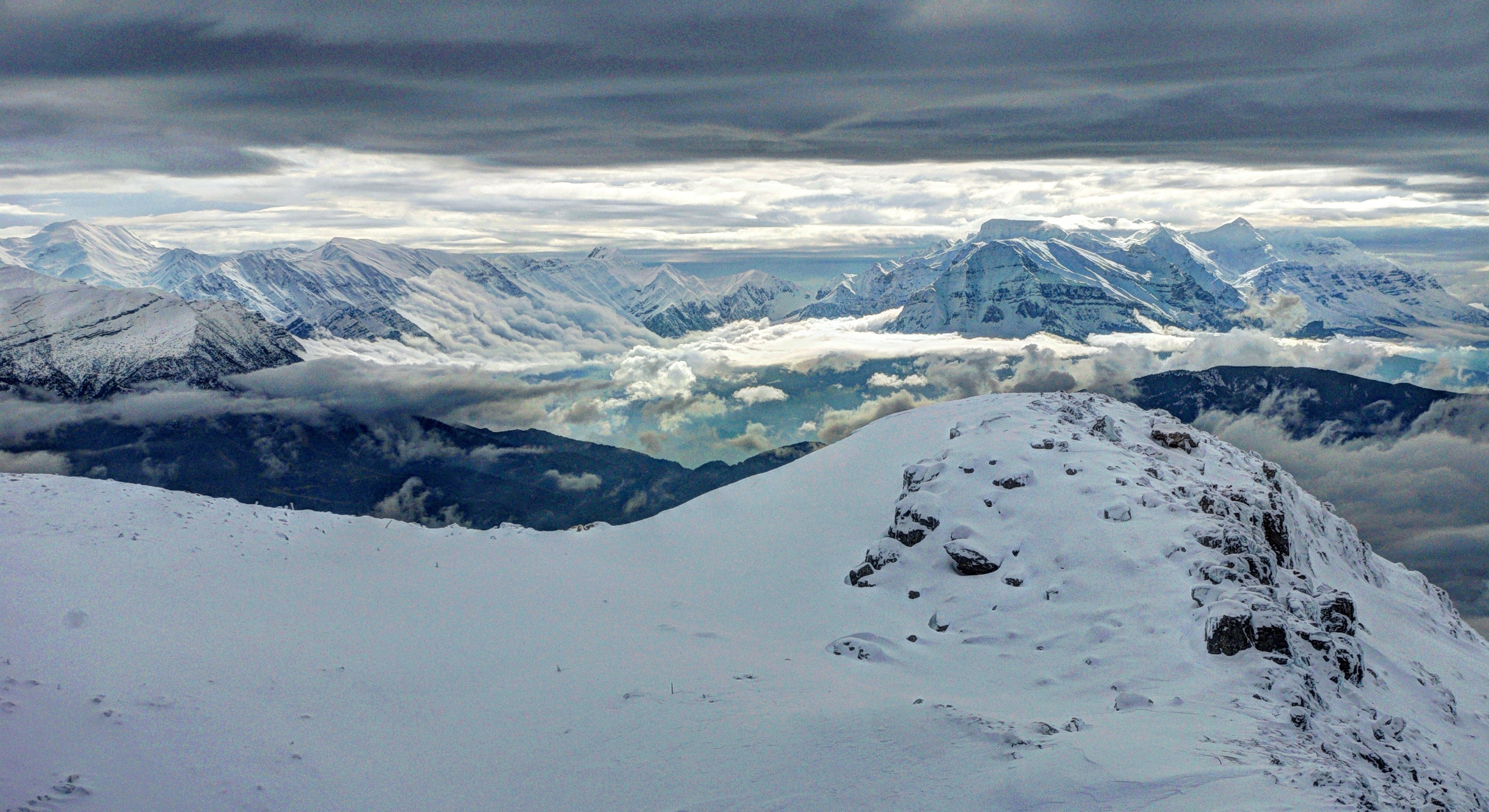 View from mt Mitsikeli, looking south at Tzoumerka and Peristeri. This is a photography of Natura 2000 protected area with ID GR2130007